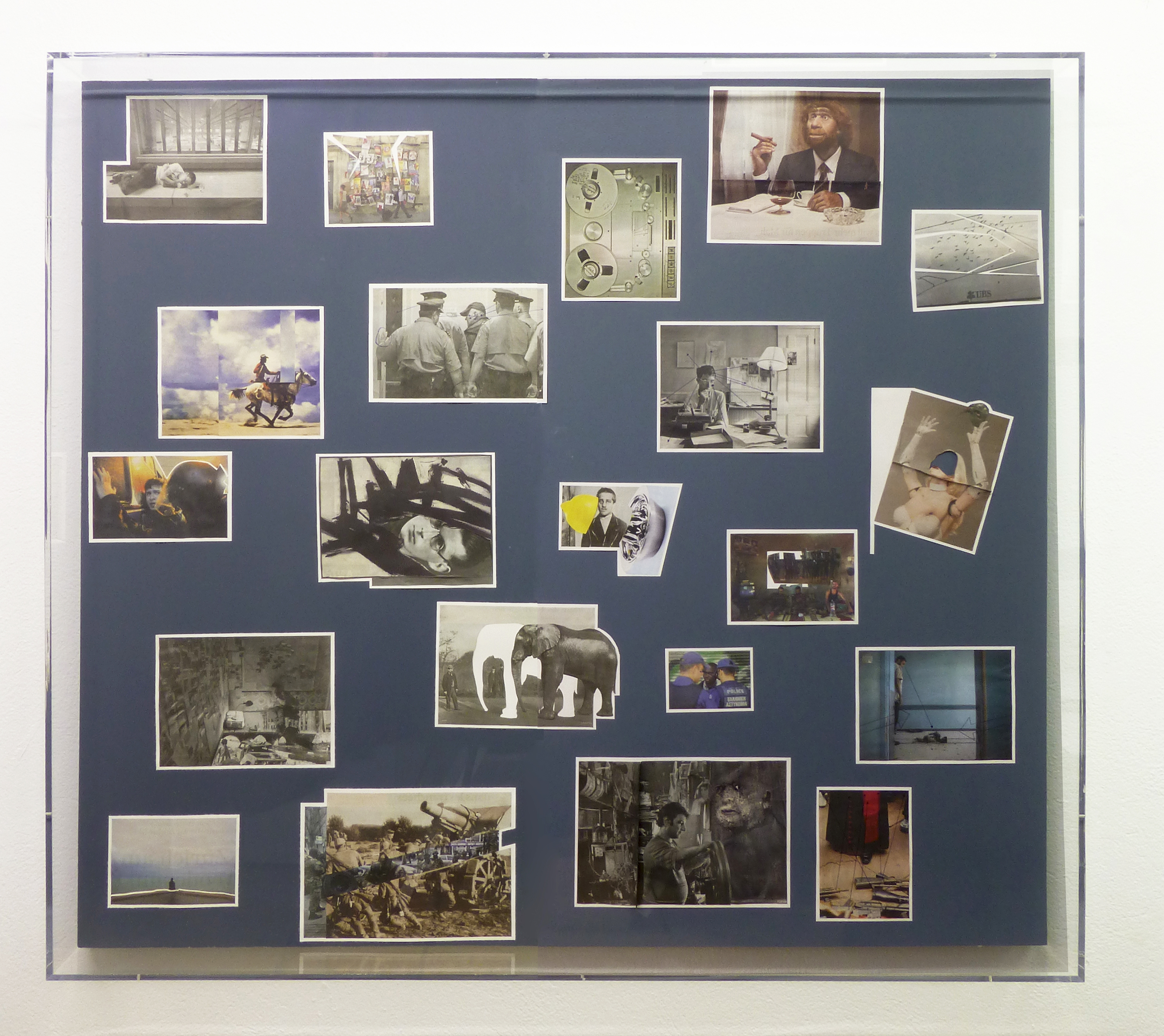 Artwork "The World Was Full Of Objects And Events And Sounds That Are Known To Be Real…, II" by Vittorio Santoro, 2014, Group of collages. Photo by Patrick Lafievre